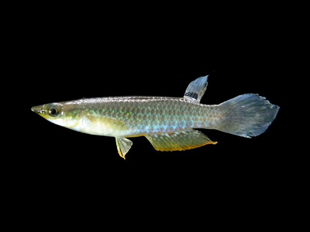 Aplocheilus panchax, Thailand, Ranong, souther Thailand, 2012. Male specimen, 36,5 mm SL.